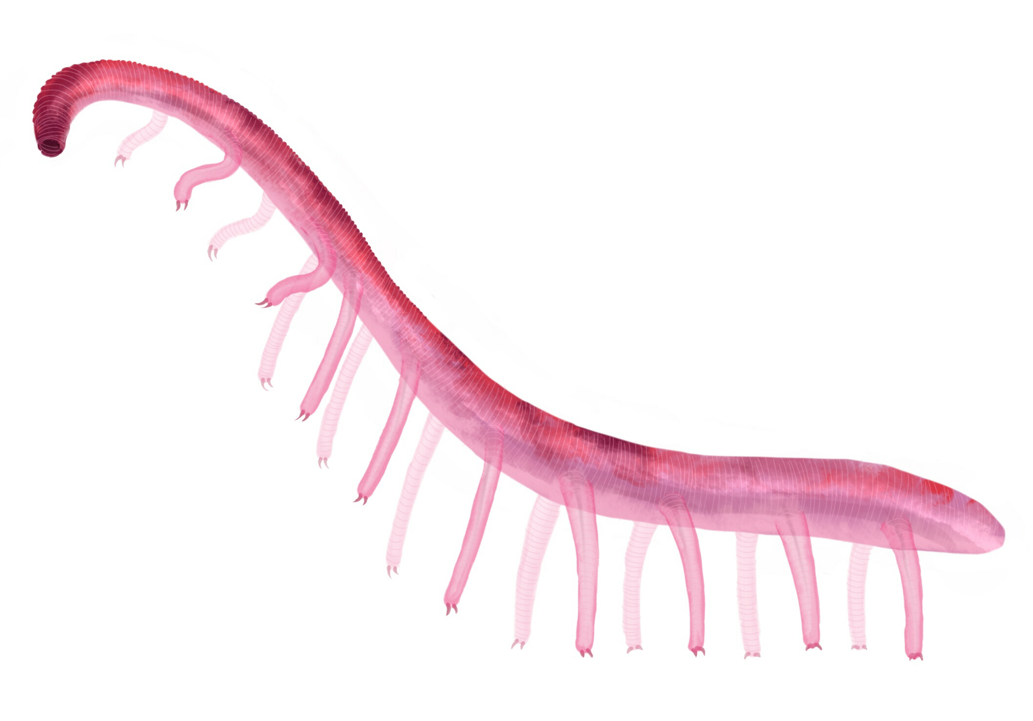 A reconstruction of Paucipodia inermis (right) scales next to Hallucigenia sparsa (left).